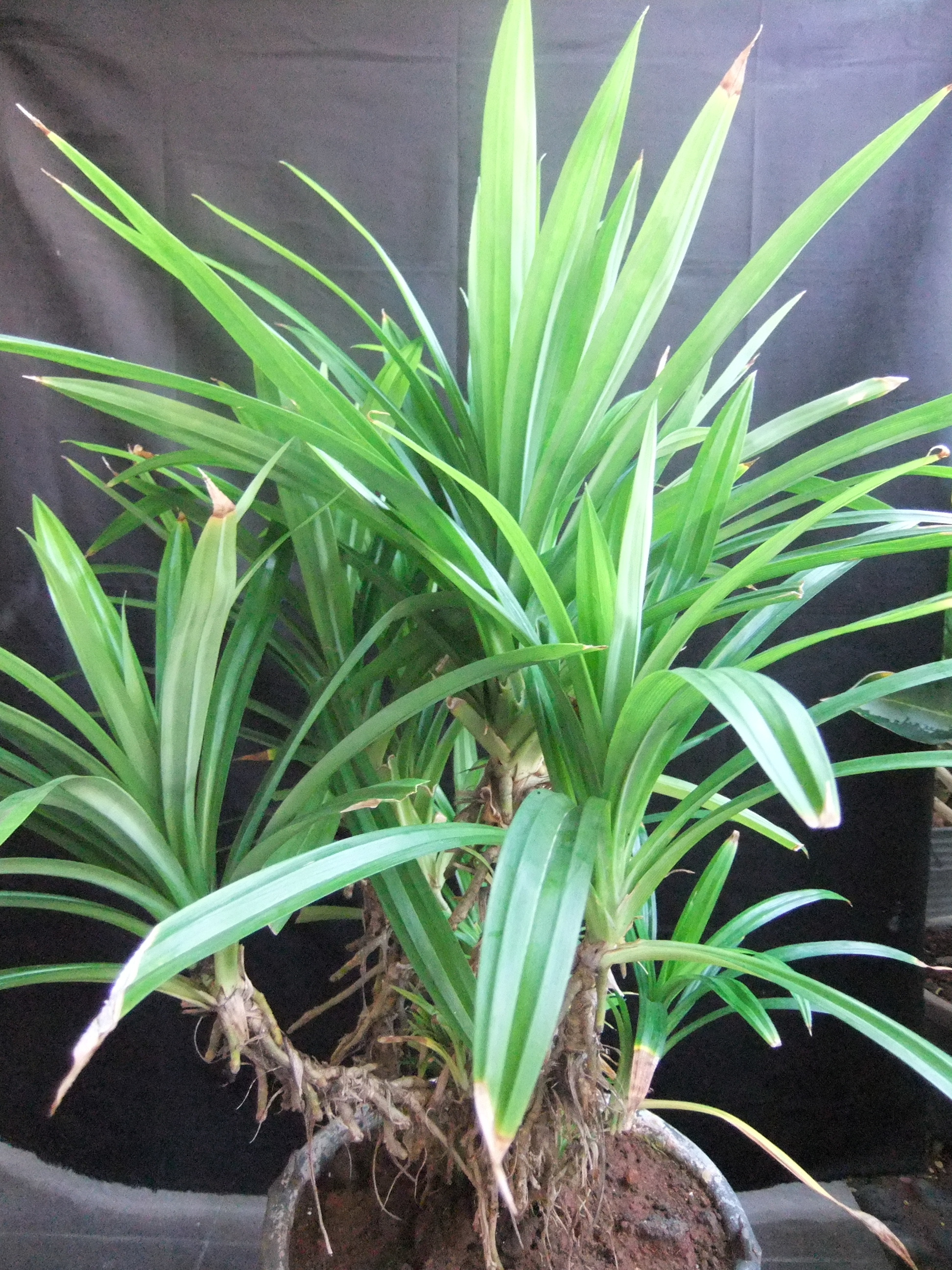 Pandanus amaryllifolius